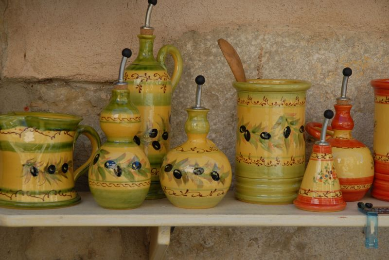 Pottery of Provence for oil and olives